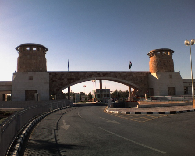 Main Gate, Jordan University of Science and Technology